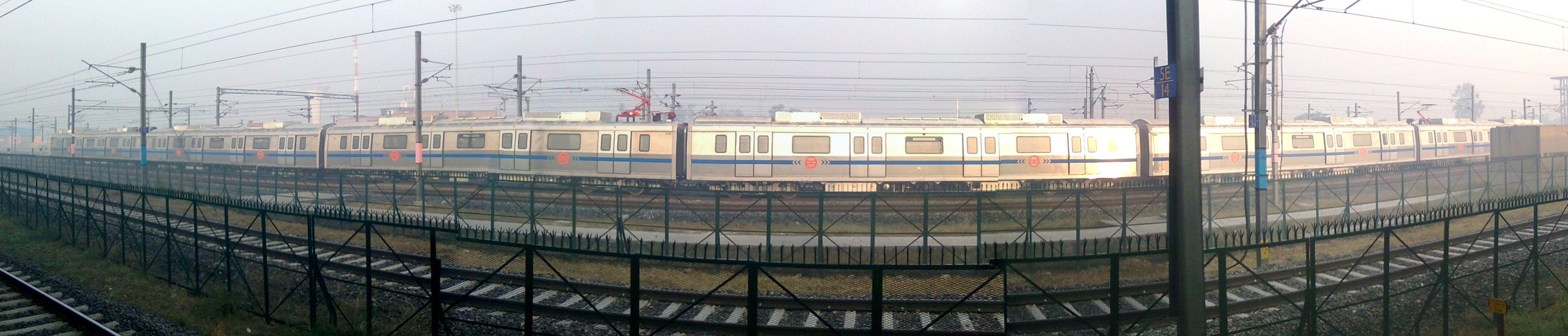 A panoramic photograph of one of the new 6 coach trains being added to the Delhi Metro.